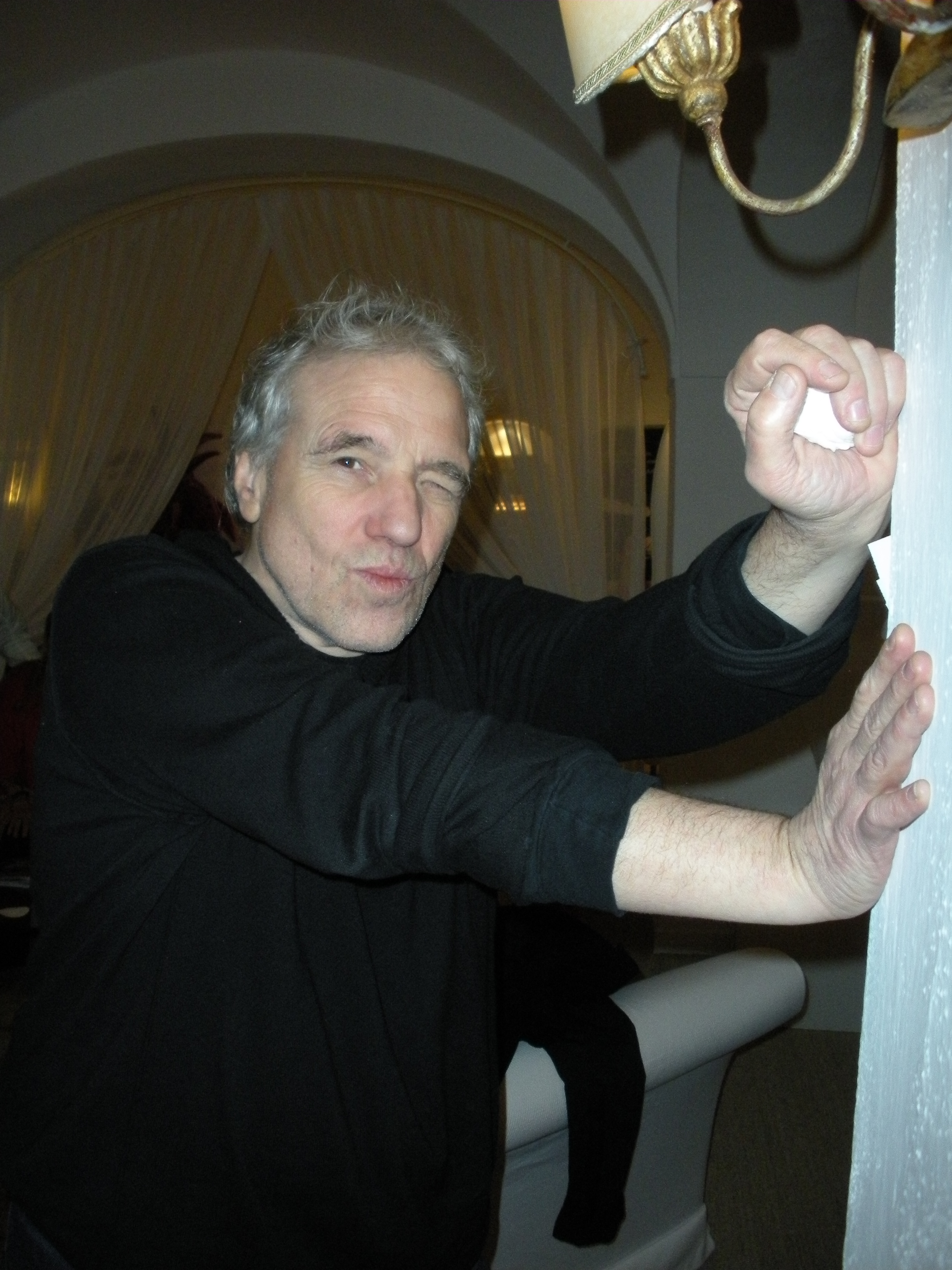 Abel Ferrara, American screenwriter and director at 2010 International Film Festival "Capri, Hollywood".